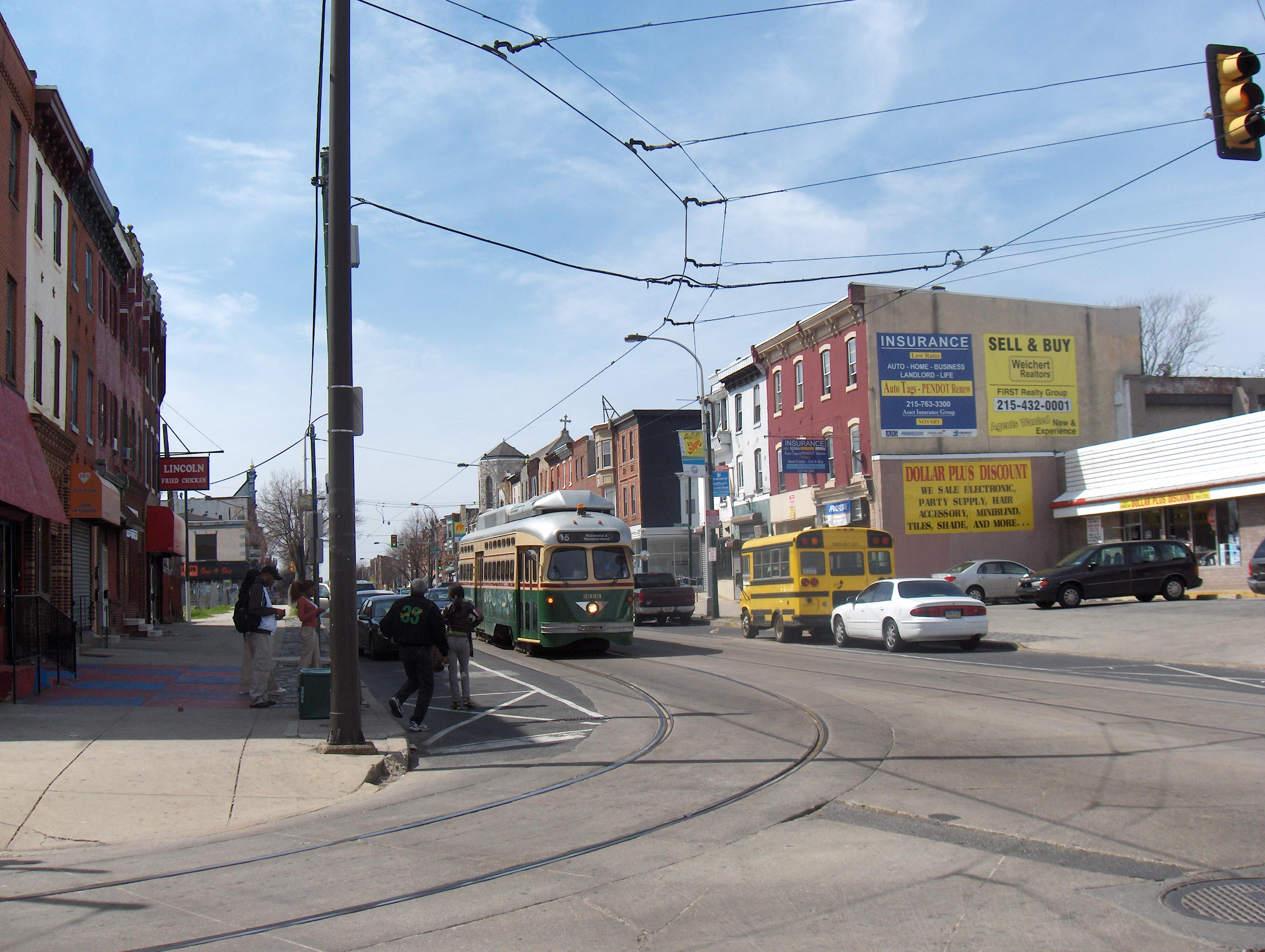 West Girard Avenue, Fairmount, Philadelphia, PA 19130, looking west, 2600 block. with SEPTA route 15 PCC trolley